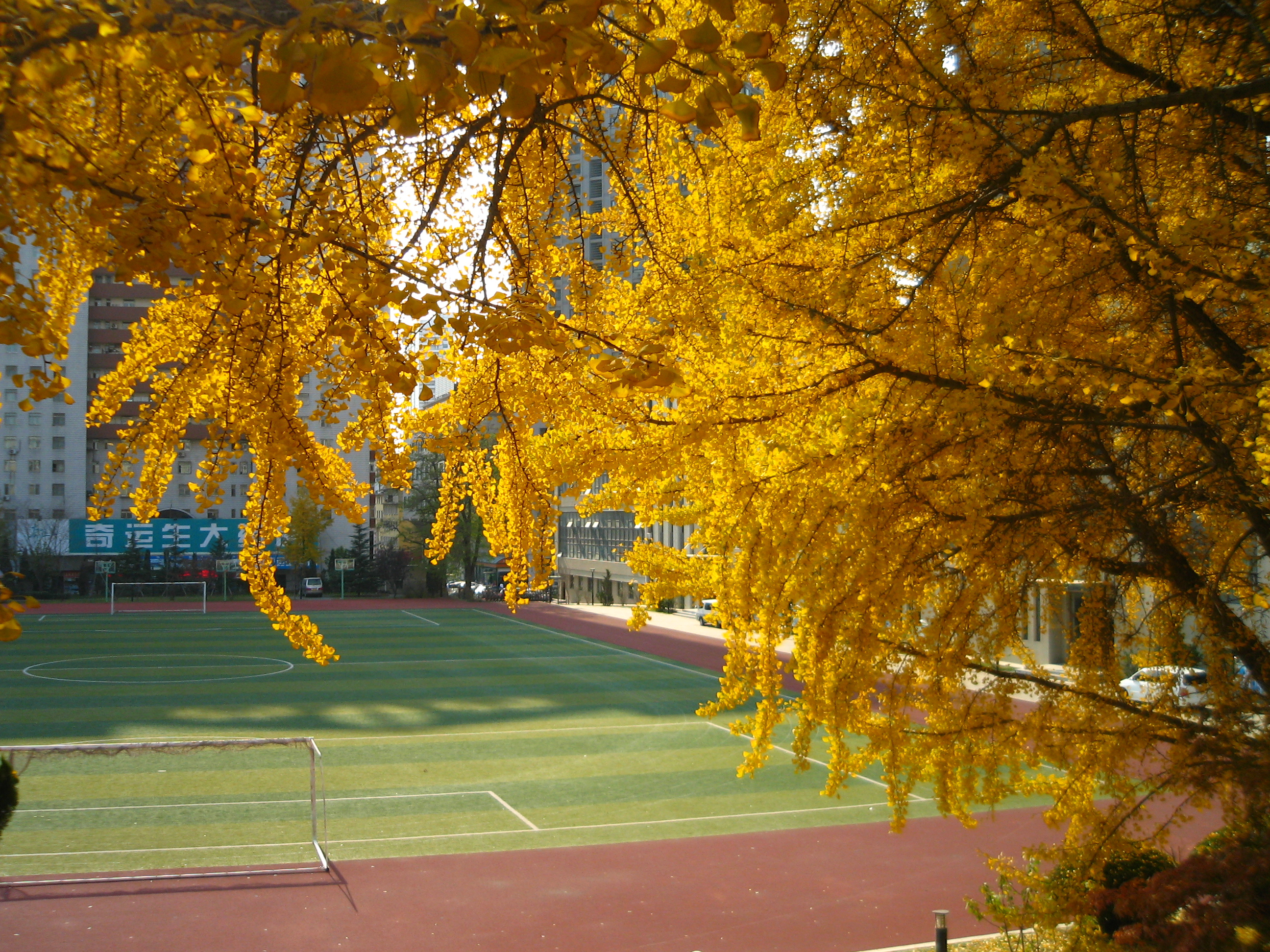 A shot from classroom to playground.